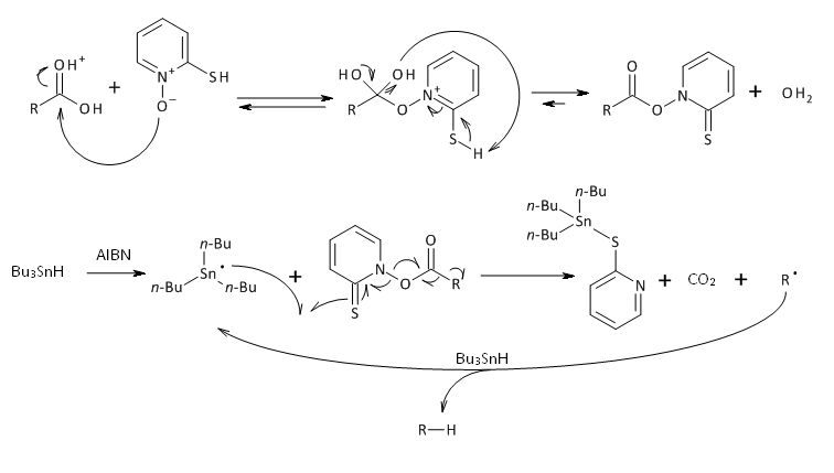 Barton-Motherwell reaction mechanism